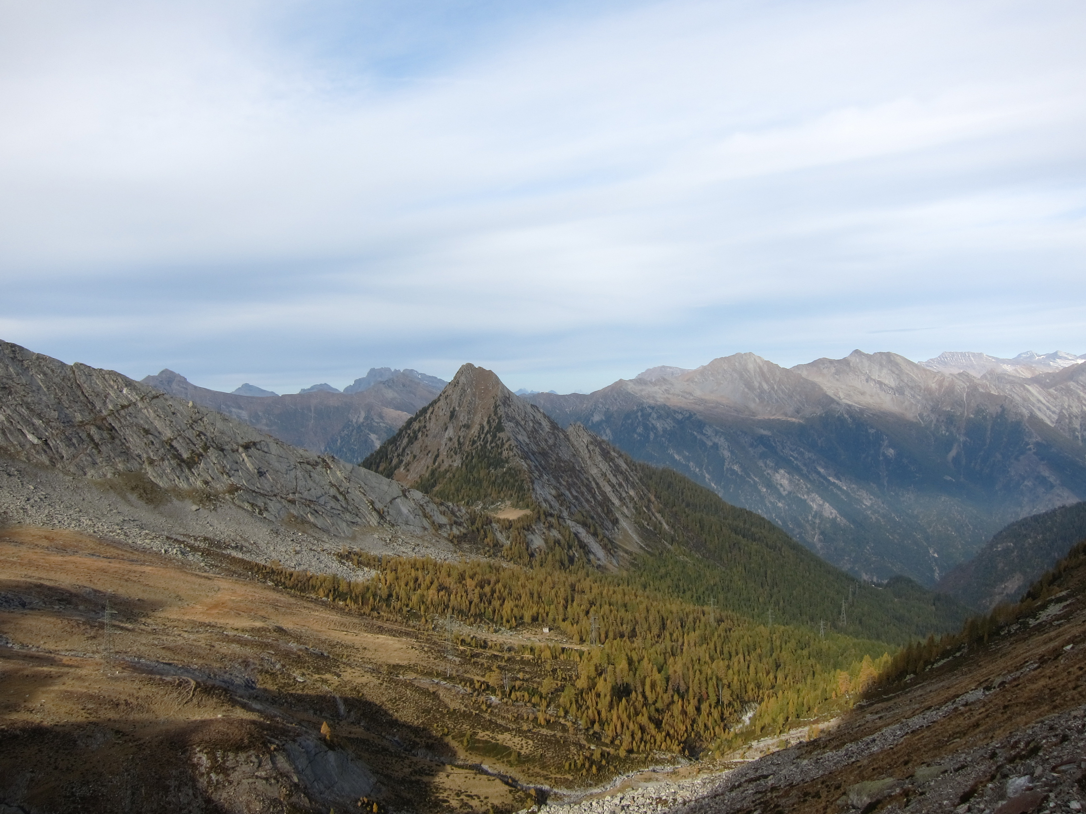 View of the Lepontine Alps from the Passo della Forcola. The first mountain in the center is the mount Pizzo di Campel 2376 masl. This mountain is located in the municipality of Soazza, in the region Moesa, in the canton Graubünden in Switzerland. Passo della Forcola is a alpine pass on the border between Italy (in region Lombardy) and Switzerland (in region Moesa). Right above the head of the photographer, the mountain that cast the shadow on the right side, there is the mount Pizzaccio (aka Pizasc). Picture taken on the 13th of october in 2019. 2019-10-13